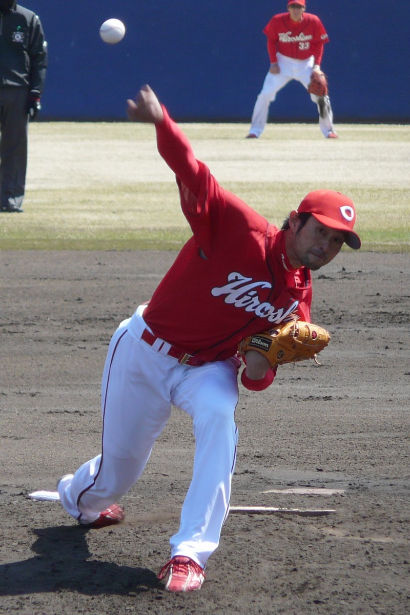 Masayuki-Hasegawa